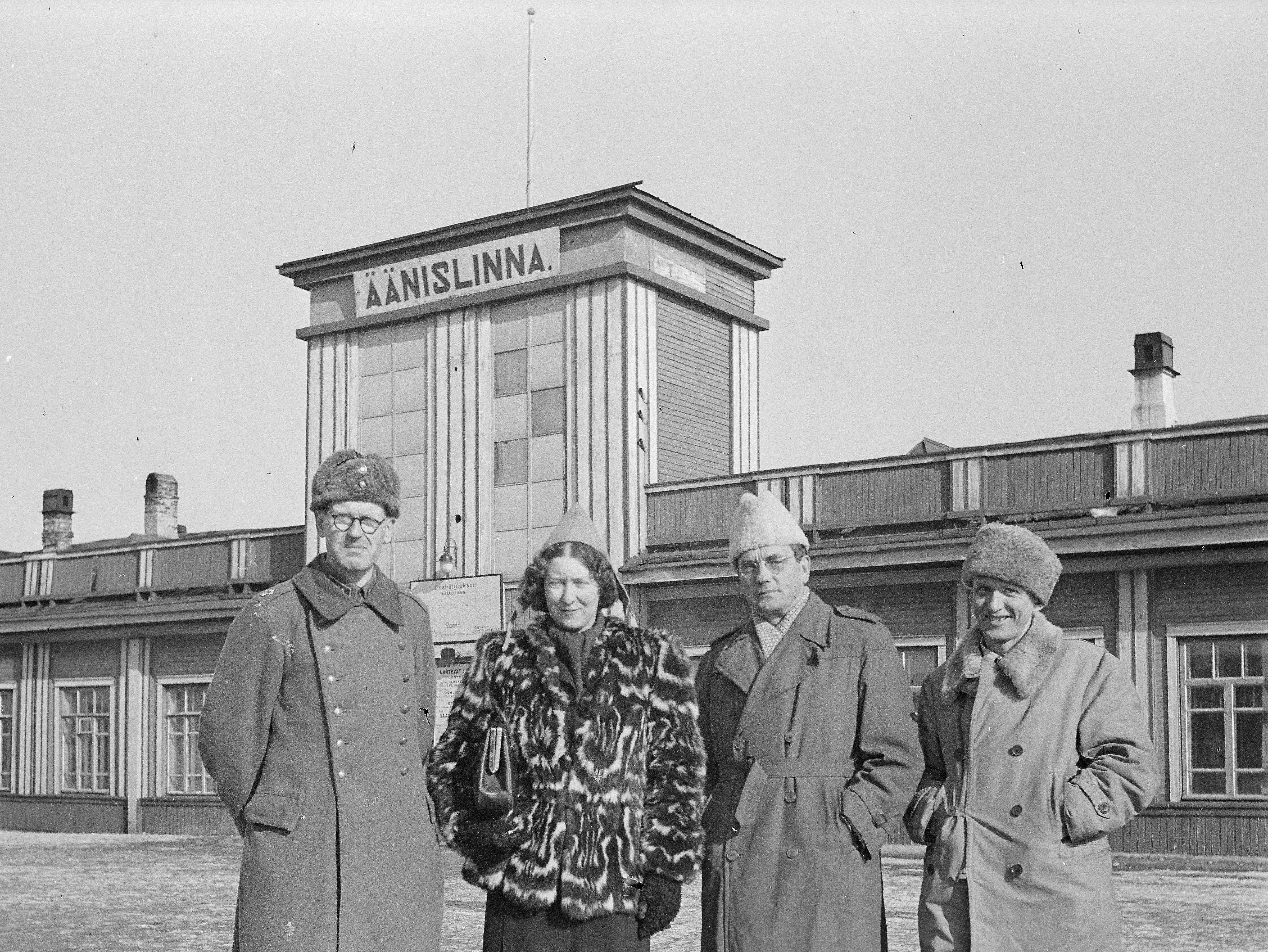 Photograph of military priest Arne Rosenqvist, Mrs. Gerdrud Alftan, priest Frank Mangs and photographer Fred Runeberg.